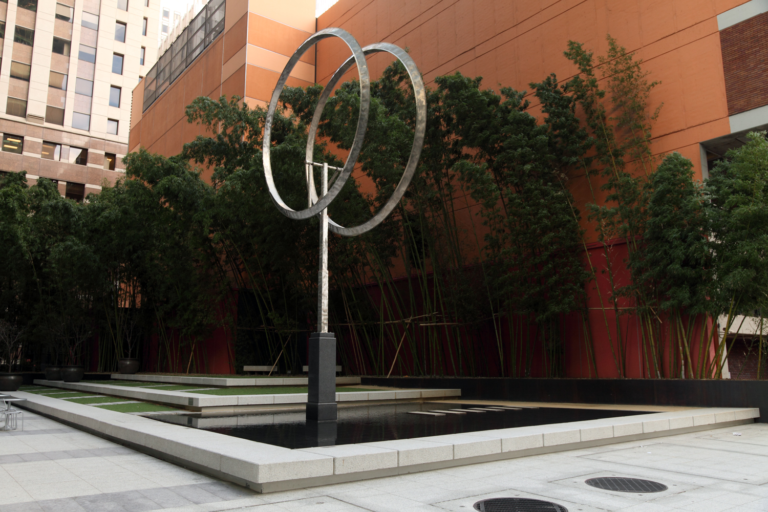 560 Mission Street Plaza and Seating with bamboo grove, JP Morgan's West Coast Headquarters